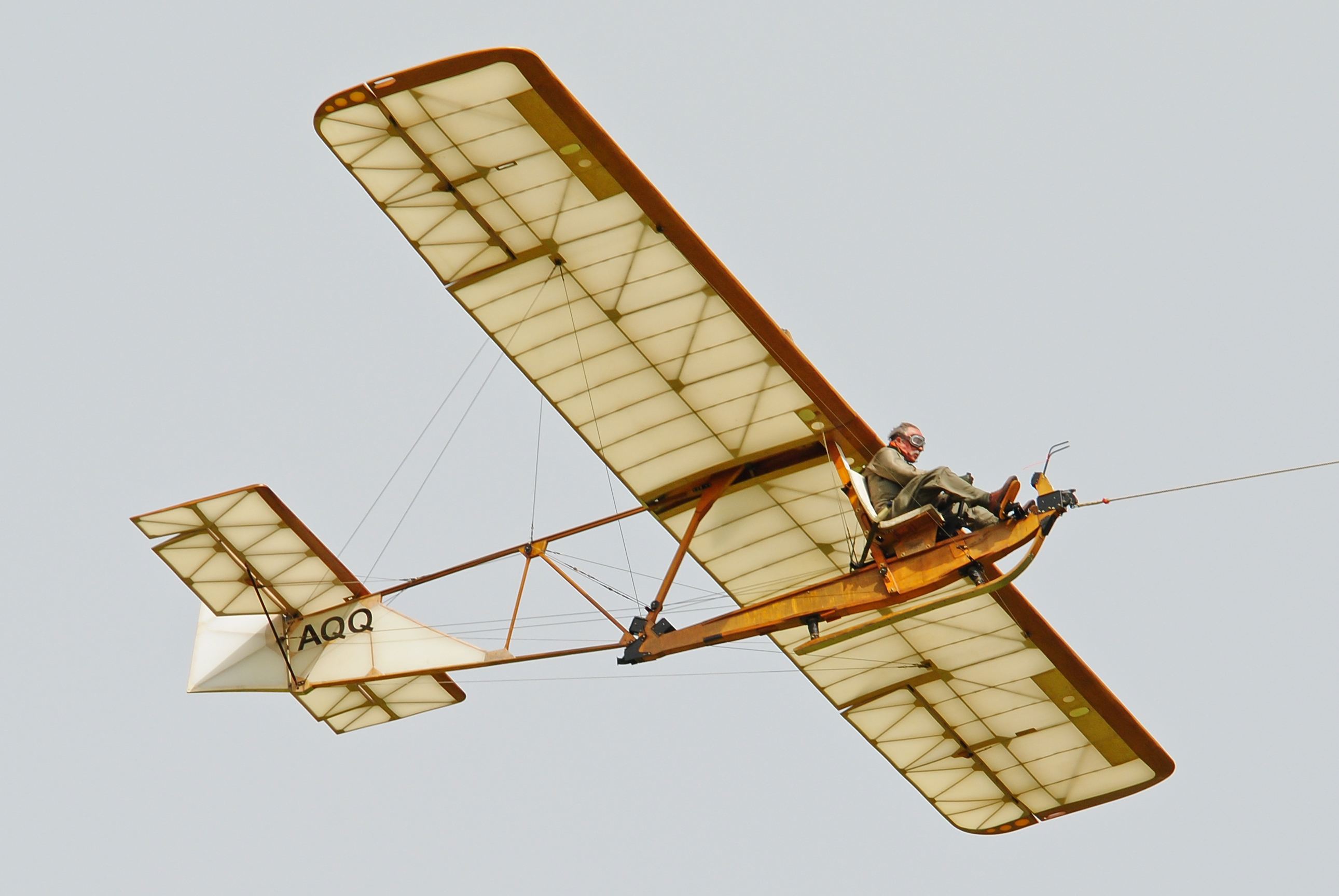 Eon Primary Glider SG.38